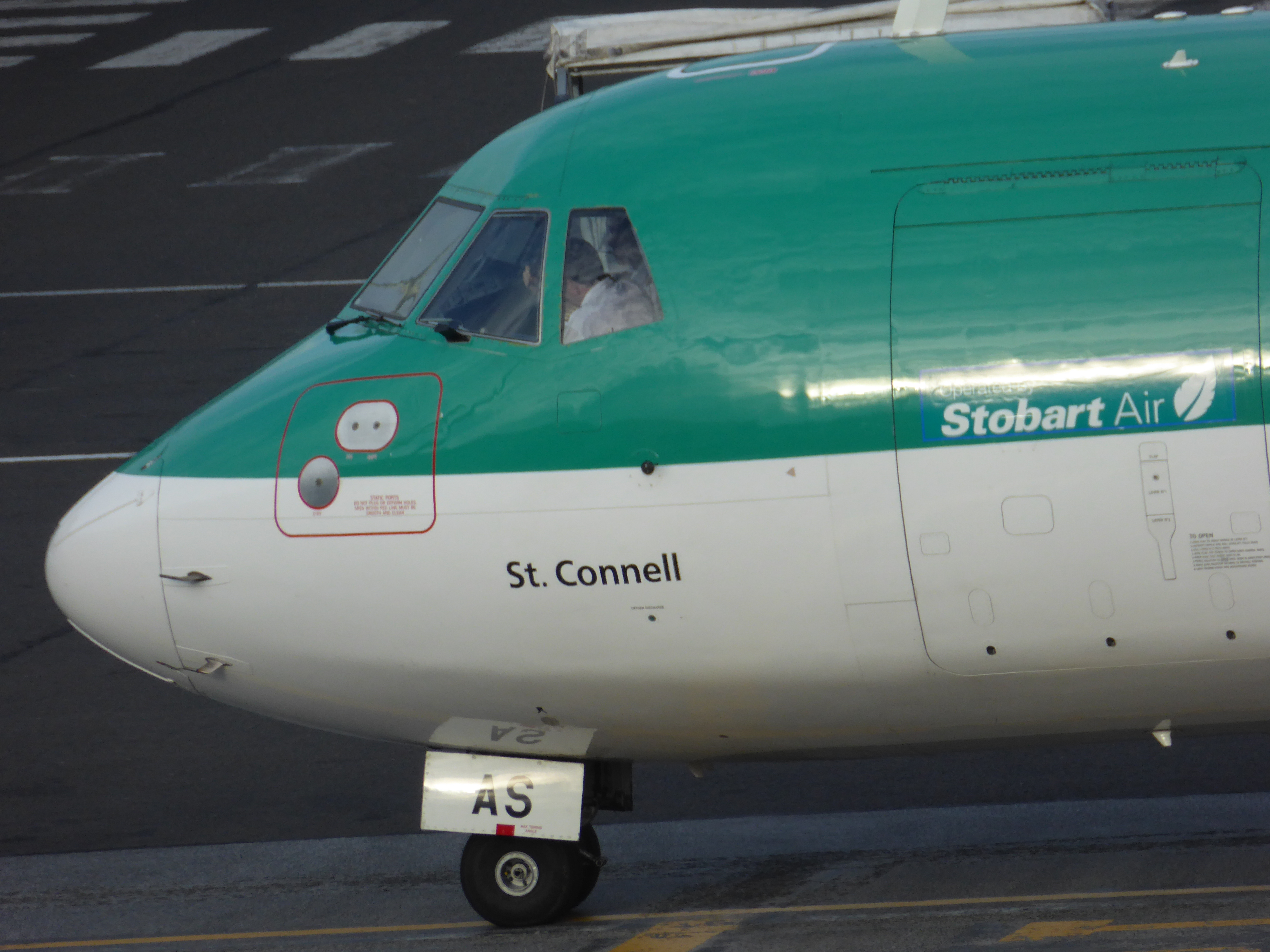 Aer Lingus Regional (operated by Stobart Air) ATR 72-600 (EI-FAS), Newcastle Airport, Newcastle upon Tyne, Tyne and Wear, England, June 2015